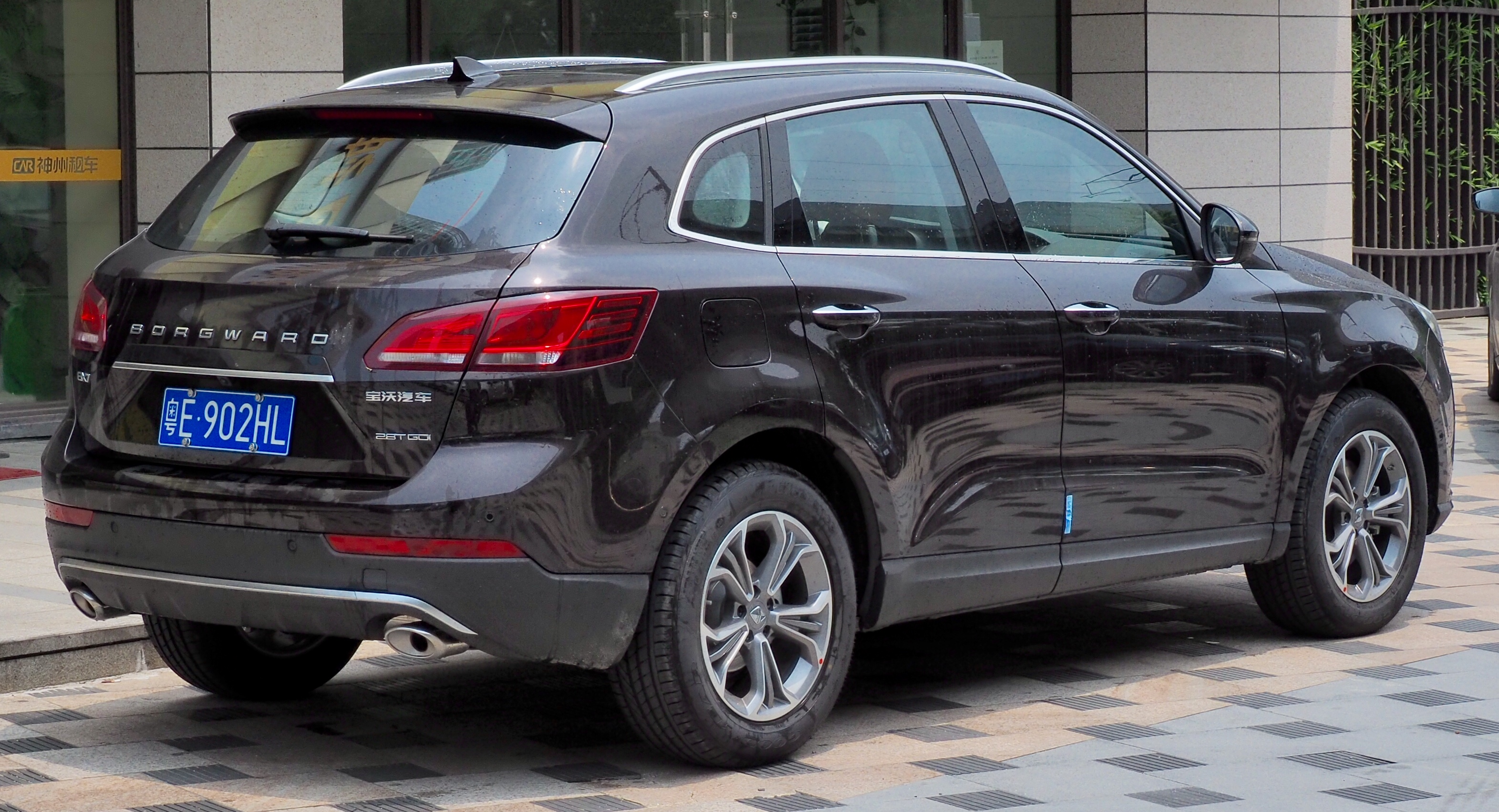 A 2018 Borgward BX7 photographed in Zhuhai, Guangdong province, China. 中文（中国大陆）: 一辆2018年的宝沃BX7，摄于中国广东省珠海市。